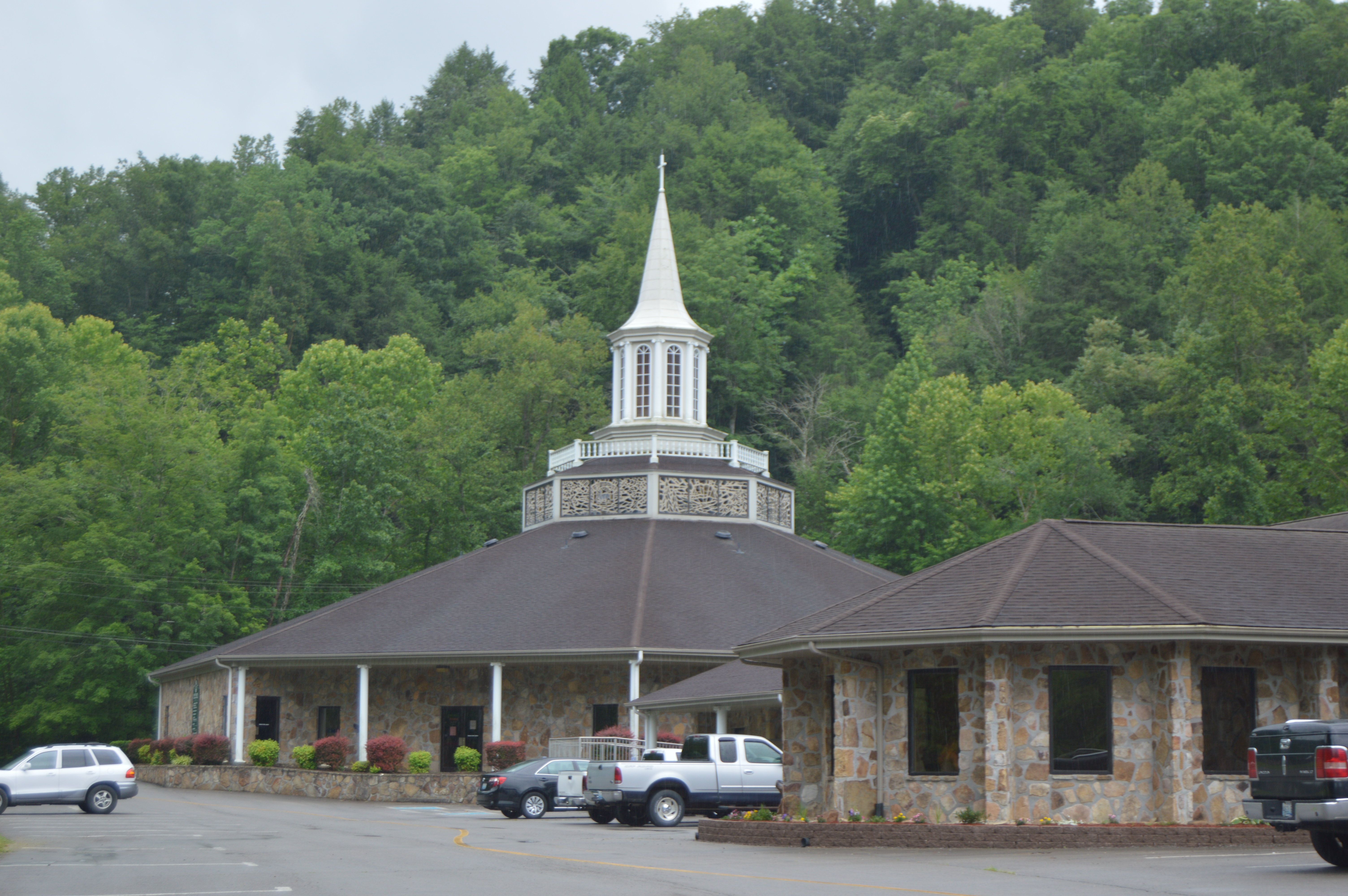 Overview of the campus of Clear Creek Baptist Bible College, located on Kentucky Route 1491 southwest of Pineville in Bell County, Kentucky, United States.